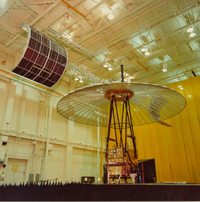 ATS-6 in test